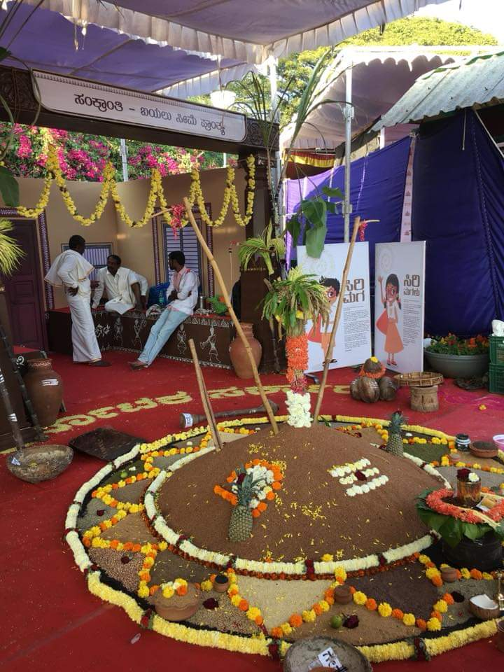 After the forming formats of Karnataka celebrate suggi This photo has been taken in the country: India